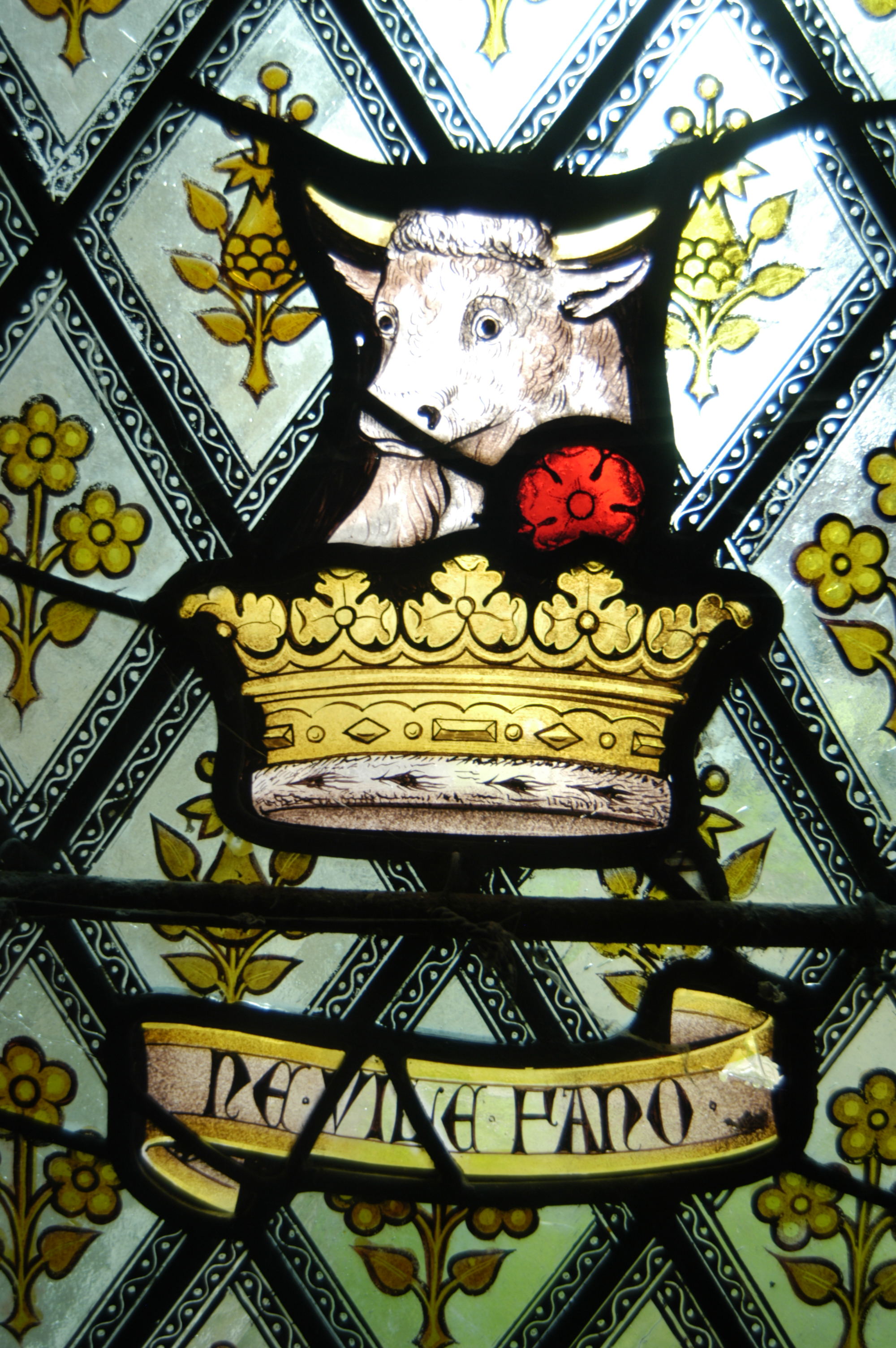 Fane crest detail in the stained glass east window of St Nicholas Church, Fulbeck, England